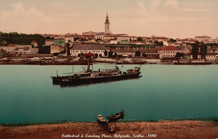 Cathedral & Landing Place, Belgrade, Serbia - 1890